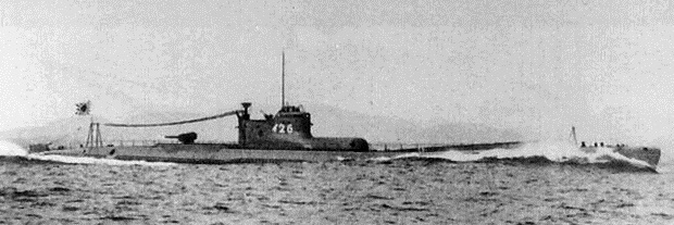 Japanese submarine I-26. This pre-1945 image is believed to be copyright-free, as it is a Japanese photograph older than 50 years. If copyright exists in this image, use here is asserted to be fair use.